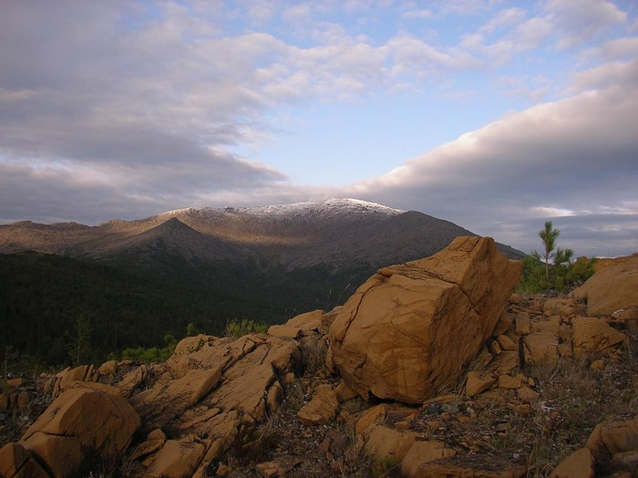 Гора Денежкин Камень. Здесь же находится одноименный заповедник.